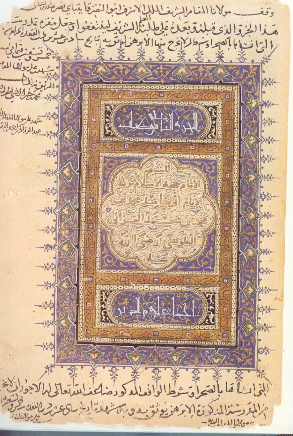 Ihya Book for Al-Ghazali